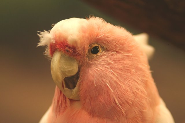 Major Mitchell's Cockatoo (Lophocroa leadbeateri) also known as Leadbeater's Cockatoo or Pink Cockatoo in Brookfield Zoo. It is named Cookie and it is at least 75 years old.